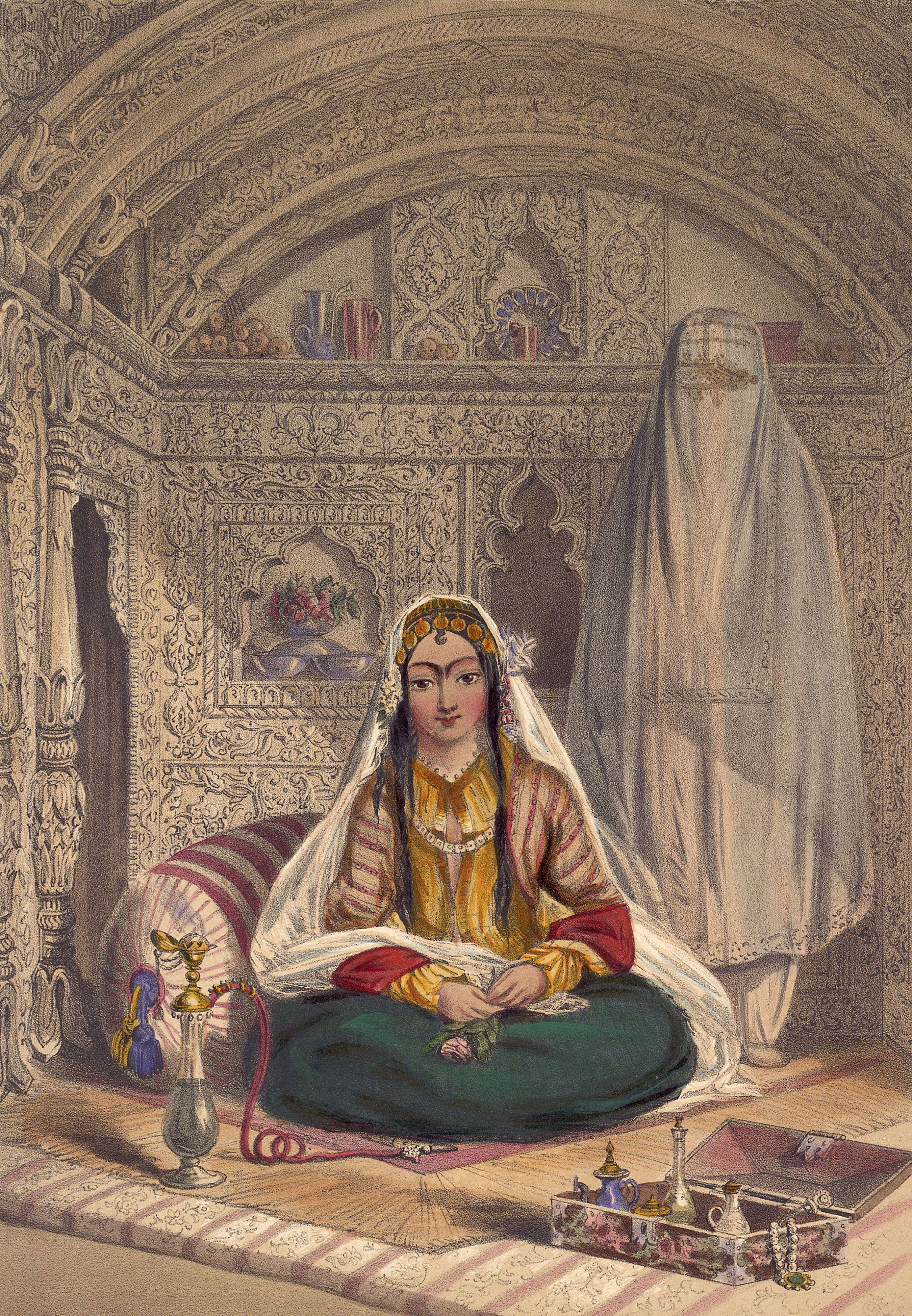 Ladies Of Caubul This lithograph is taken from plate 24 of 'Afghaunistan' by Lieutenant James Rattray. A political mission composed of Doctor Lord and Captain Rattray (James' brother) was established at Bamiyan. This was the frontier city of Afghanistan and the first spot which could be attained by the Russians. It was also the only road by which the exiled Dost Mohammed could revisit his kingdom. The region was famed for its Buddhist statues. Shakar Lab ('Sugar Lips') was the favourite wife of a former governor of Bamiyan and niece by marriage to Dost Mohammed. As a great favour, Rattray was introduced to her at Kabul. Describing her as a Qizilbash belle of the first water, Rattray wrote: "Afghaun ladies exercise more control over their husbands than is usual in Eastern countries." Though women of the higher classes were strictly under purdah as in Hindustan, Rattray wrote that they certainly enjoyed life more than the Hindustanis. Women were seen making constant pleasure excursions into tombs, gardens and bazaars, and they threw off their veils and restraint in secluded spots. He had sometimes come upon them thus and found them strikingly handsome.